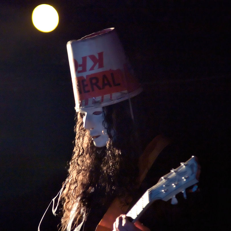 Buckethead (performing with That 1 Guy) at the Belly Up, 2006-04-23.